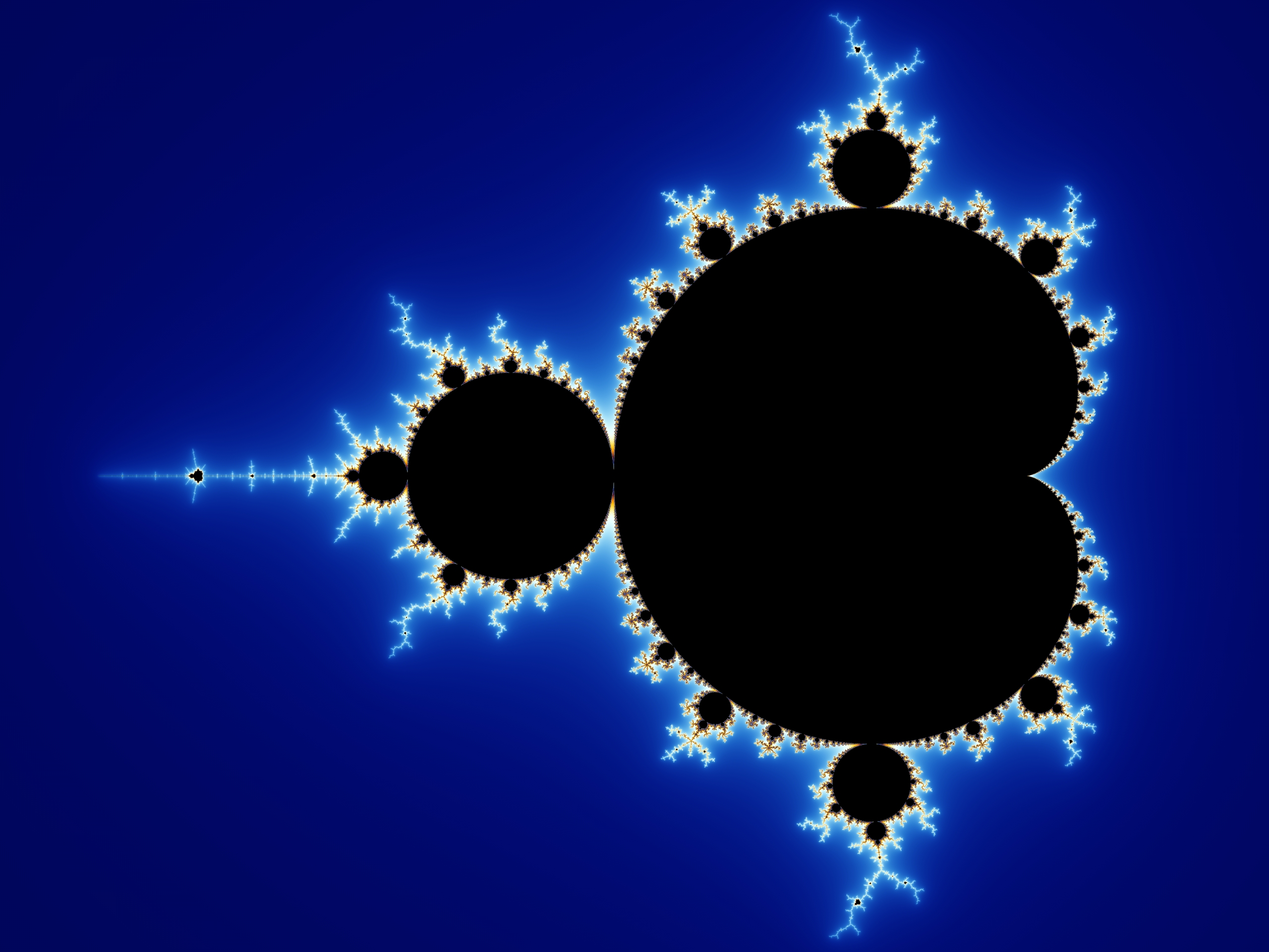 Mandelbrot set. Initial image of a zoom sequence: Mandelbrot set with continuously colored environment. Coordinates of the center: Re(c) = -.7, Im(c) = 0 Horizontal diameter of the image: 3.076,9 Created by Wolfgang Beyer with the program Ultra Fractal 3. Uploaded by the creator.